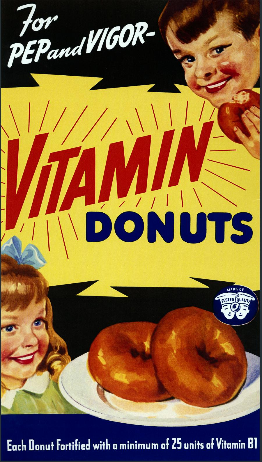 In the 1920s, key vitamins were identified that contribute to human health. FDA remained, at least until the advent of WWII, extremely skeptical, not of the vitamins themselves, but of the premature claims made for them. FDA developed a rational program for food enrichment upheld by the courts. Suffice it to say that FDA’s enrichment policies did not allow fortified donuts – or beer!! For more information about FDA history visit